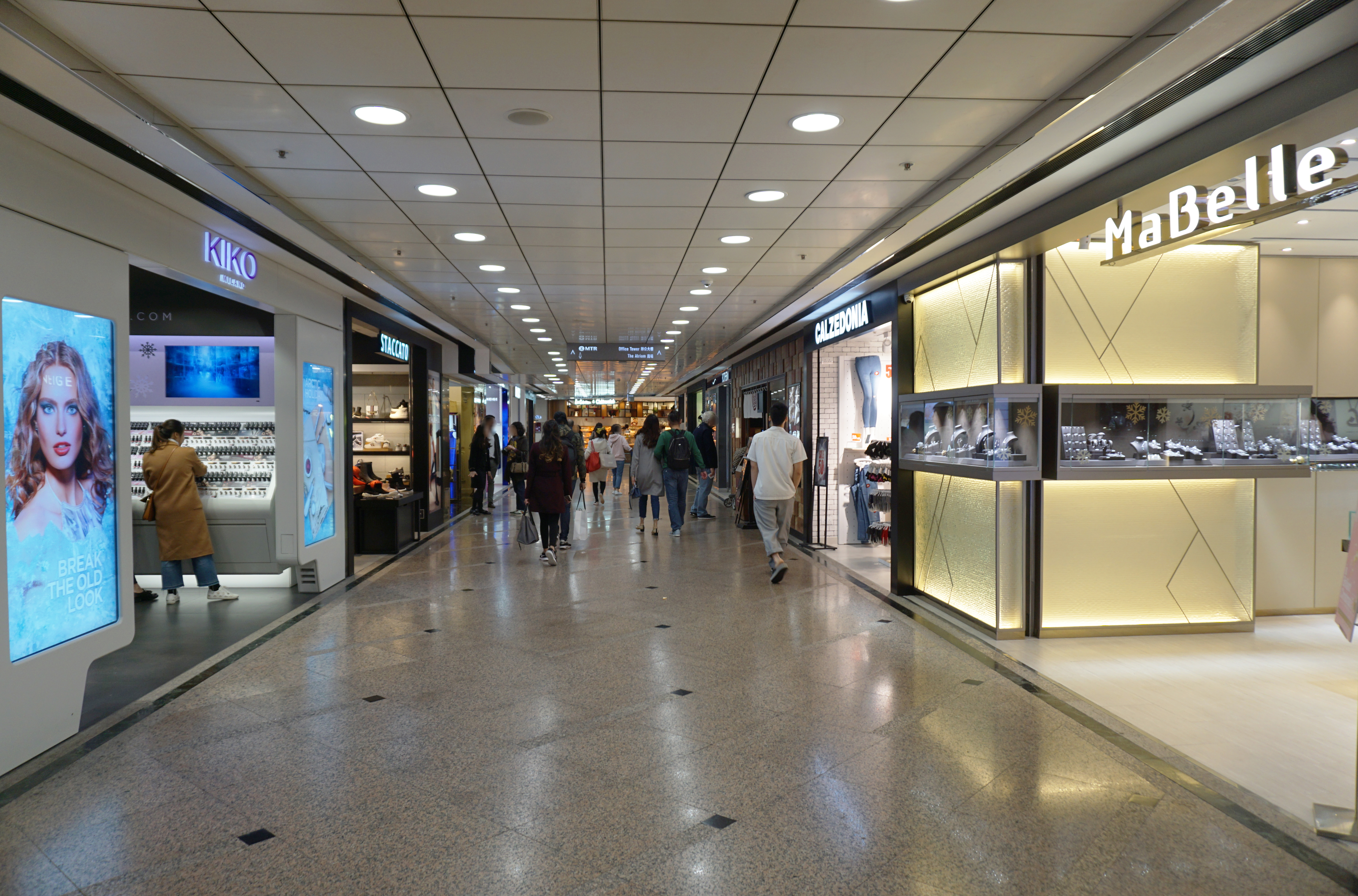 Times Square in Causeway Bay, Hong Kong.